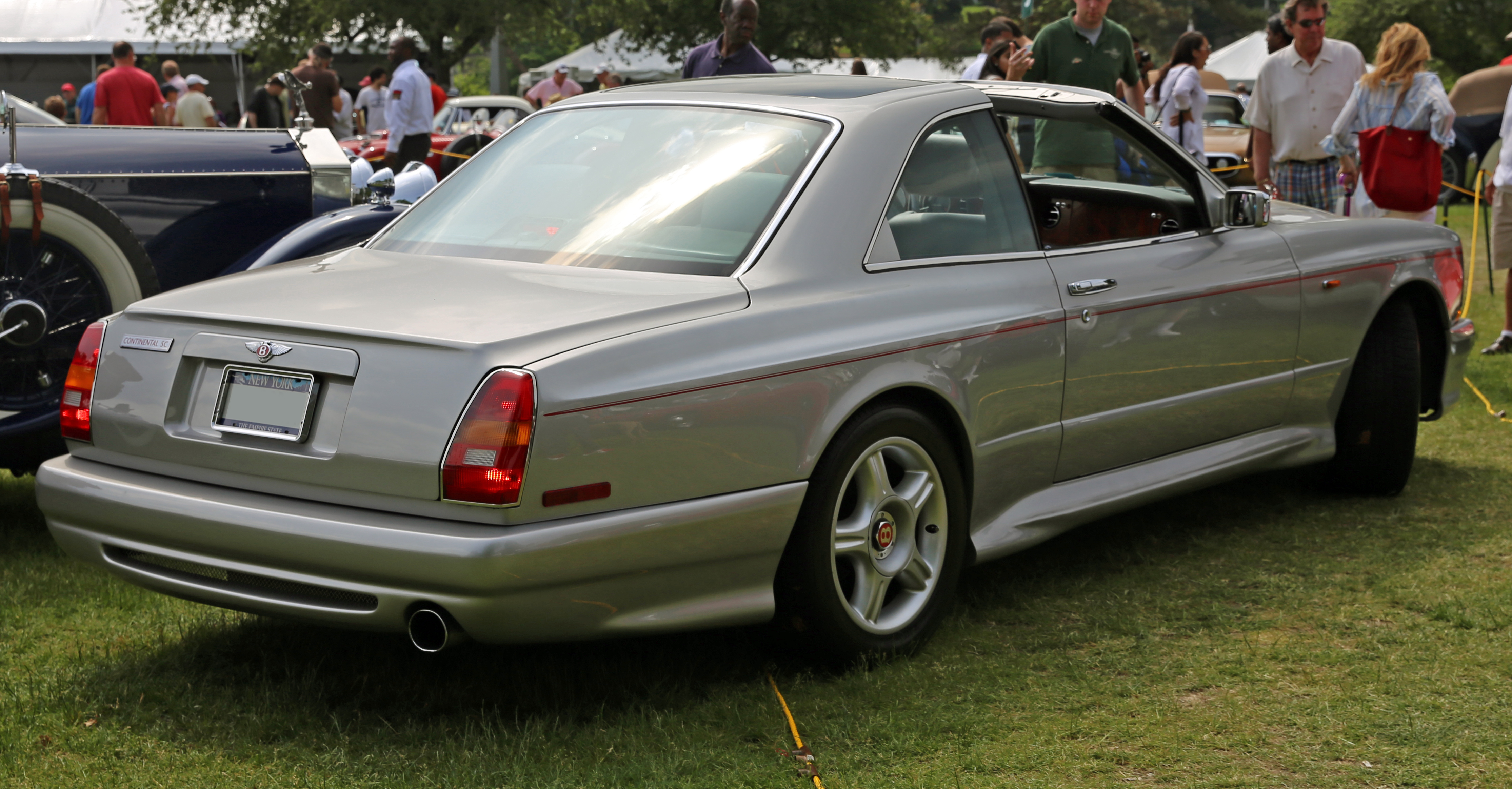 1999 Bentley Continental SC sedanca (that's a T-top to us plebeians) at the 2013 Greenwich Concours d'Elegance.